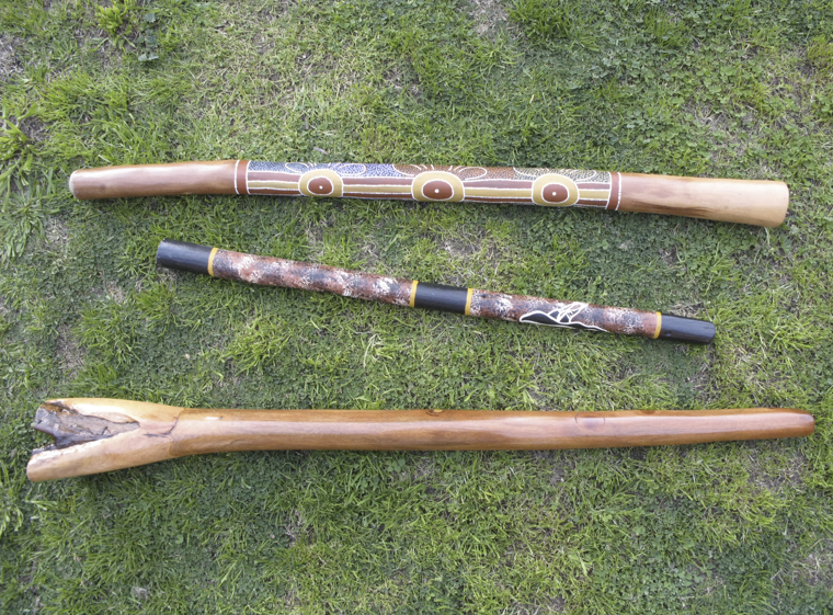 Various types of Didgeridoo. Top: A traditionally crafted and decorated didgeridoo. Middle: A bamboo souvenir didgeridoo. Bottom: An undecorated traditionally crafted didgeridoo. Photo taken by myself in July 2009.